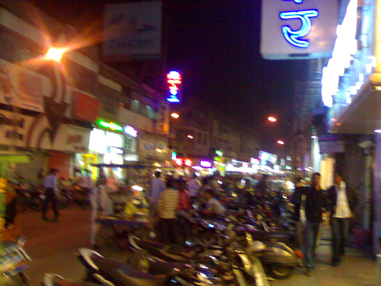 Pune City Laxmi Road